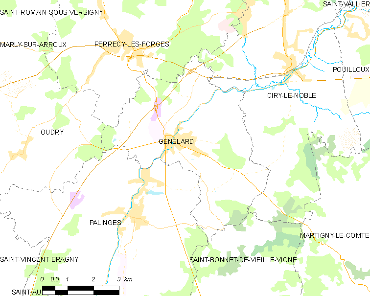 Map of French municipality